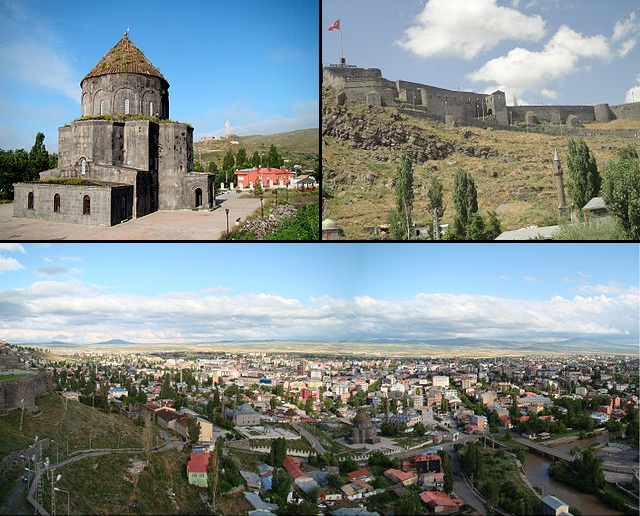 Collage of Kars